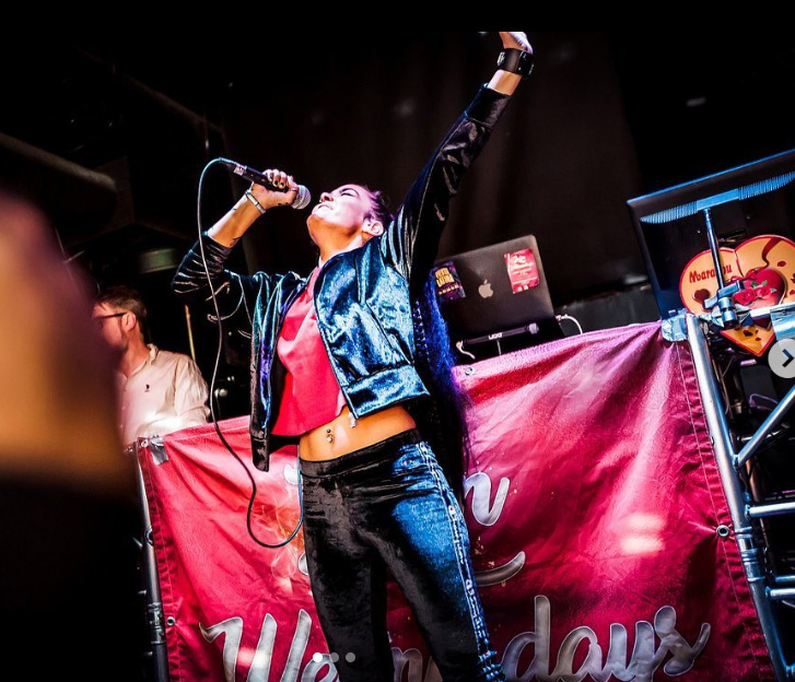 Sofia Zida performing songs on Malumas's gig in Finland.